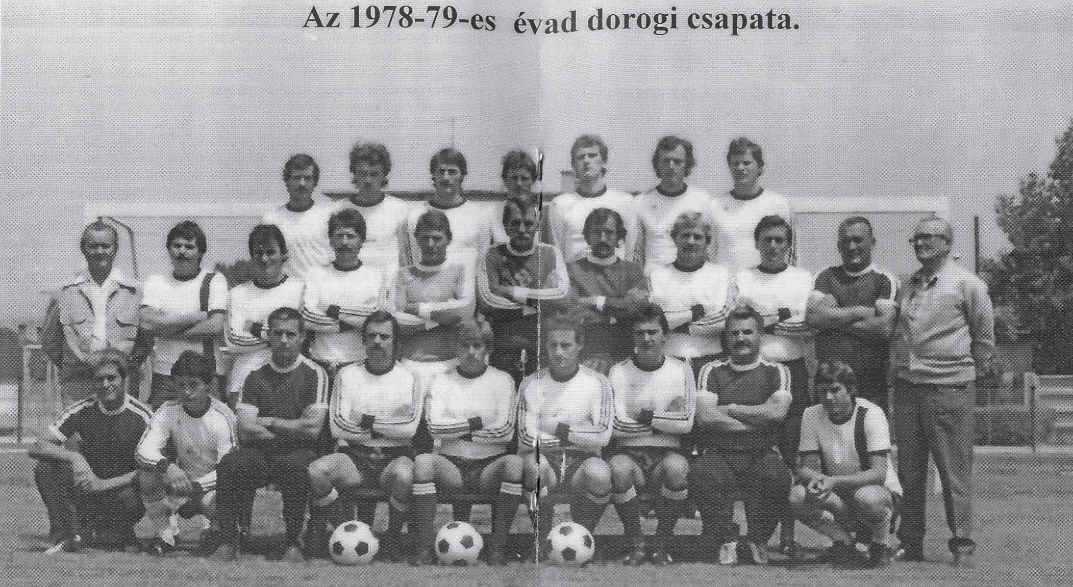 Dorog in 1979